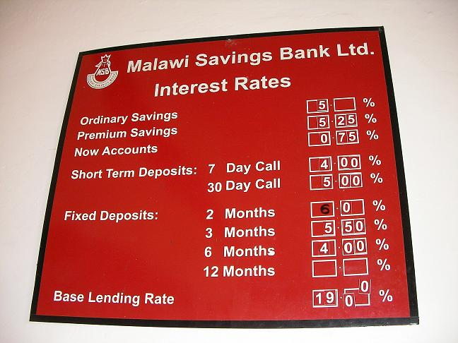 Advertised interest rates inside the Malawi Savings Bank branch in Ncahlo, Malawi on 30 Sept 2008.